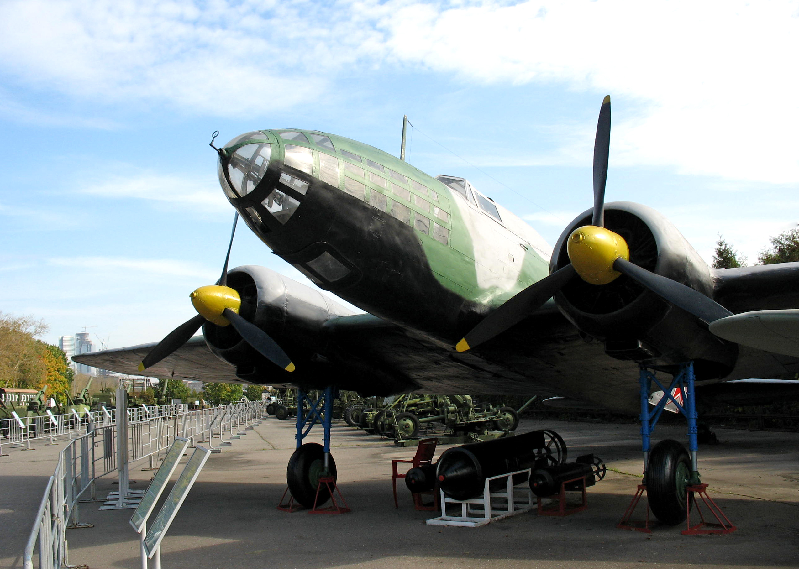 Distant bomber Ilyushin Il-4 (DB-3F). Works number 17404. Has made emergency landing around village Muravejka of Anuchinsky area of Primorski Territory. It is found by group of military-sports club "Search". It is restored by Aviation-restoration group under the direction of O.J.Lejko. It is transferred a Central museum of the Great Patriotic War (Moscow) in August, 2004